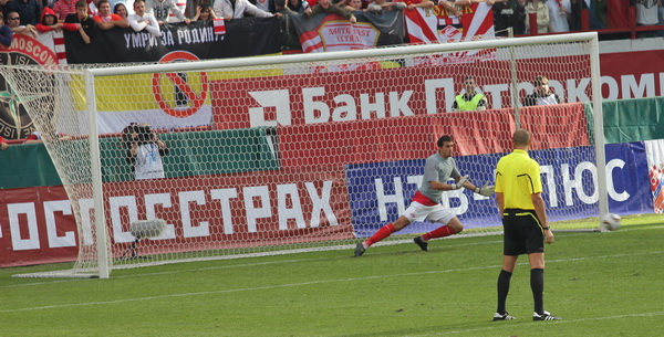 Martin Stranzl